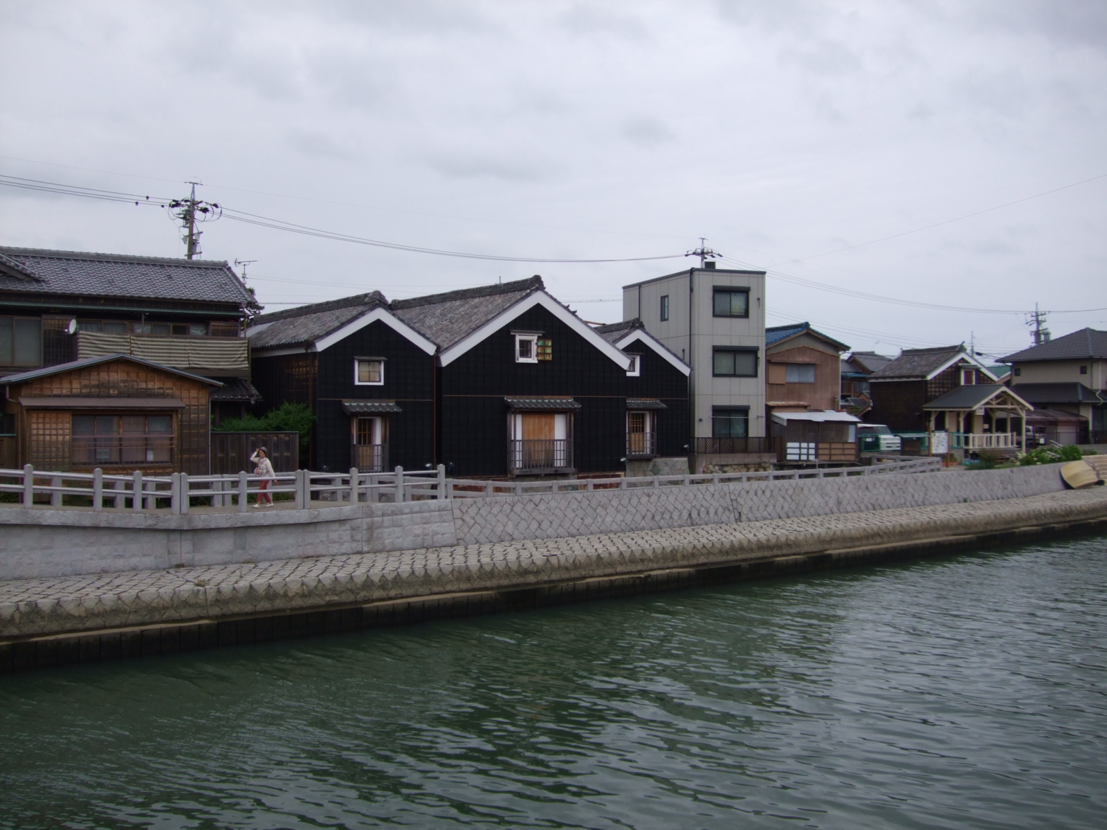 Streets in Kawasaki area, Ise City, Mie, Japan.